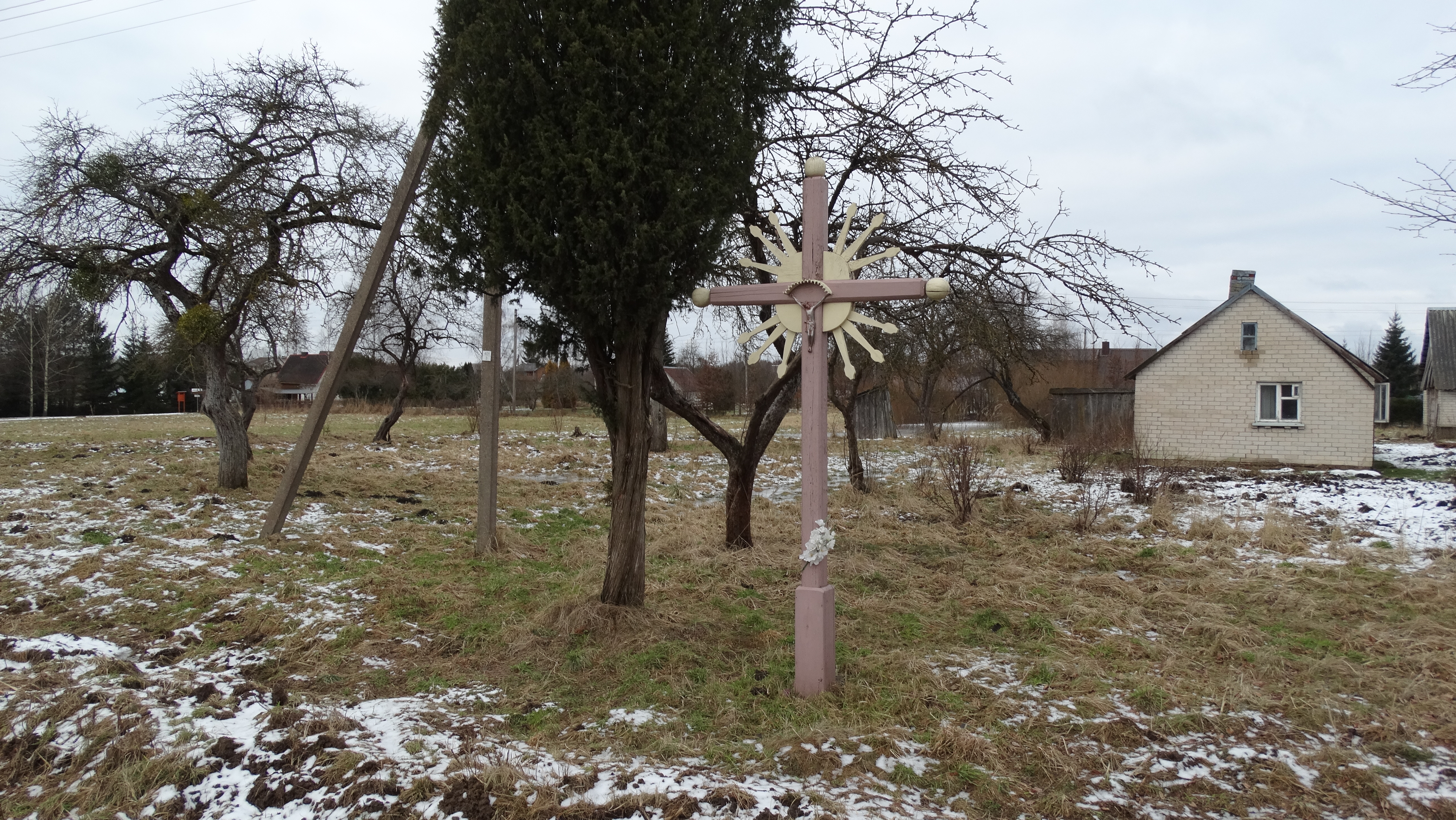 Byliškės, Prienai district, Lithuania